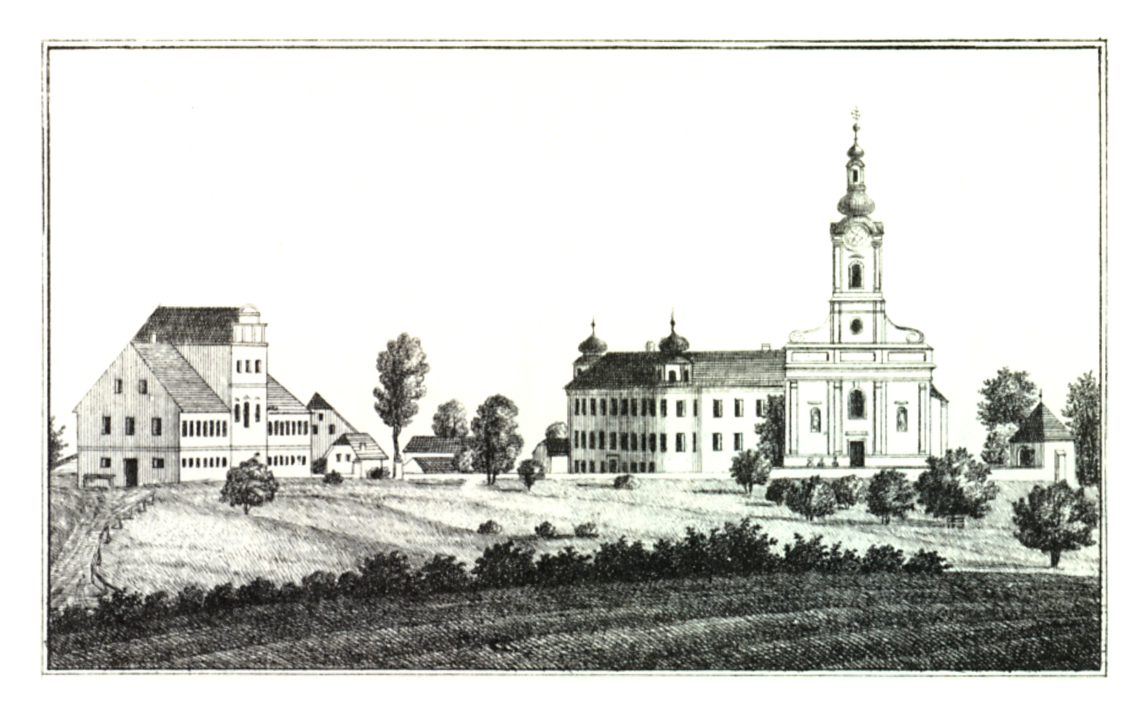 J. F. Kaiser - lithographirte Ansichten der Steyermärkischen Städte, Märkte und Schlösser Graz, 1825 Joseph Franz Kaiser (1786–1859) Alternative names J. F. KaiserDescriptionAustrian printer and editorDate of birth/death 11 March 1786 19 September 1859Location of birth/death Graz (Styria) GrazAuthority control : Q1499963 VIAF: 30629353 ISNI: 0000 0000 3083 0153 LCCN: n87141671 GND: 129880159 NLP: A24960305 WorldCat creator QS:P170,Q1499963 Scanprojekt Community Projektbudget 2012 This scan or this PDF-file was created within the GLAM-project Bookscanning, supported by Wikimedia Germany and Wikimedia Austria as a part of the community-project to capture books, documents and pictures which are not eligible to copyright or for which the copyright has expired. This document describes or depicts an object which is located in Austria today. Send requests for uncompressed scans to Hubertl. This work is in the public domain in its country of origin and other countries and areas where the copyright term is the author's life plus 100 years or less. You must also include a United States public domain tag to indicate why this work is in the public domain in the United States. This file has been identified as being free of known restrictions under copyright law, including all related and neighboring rights.